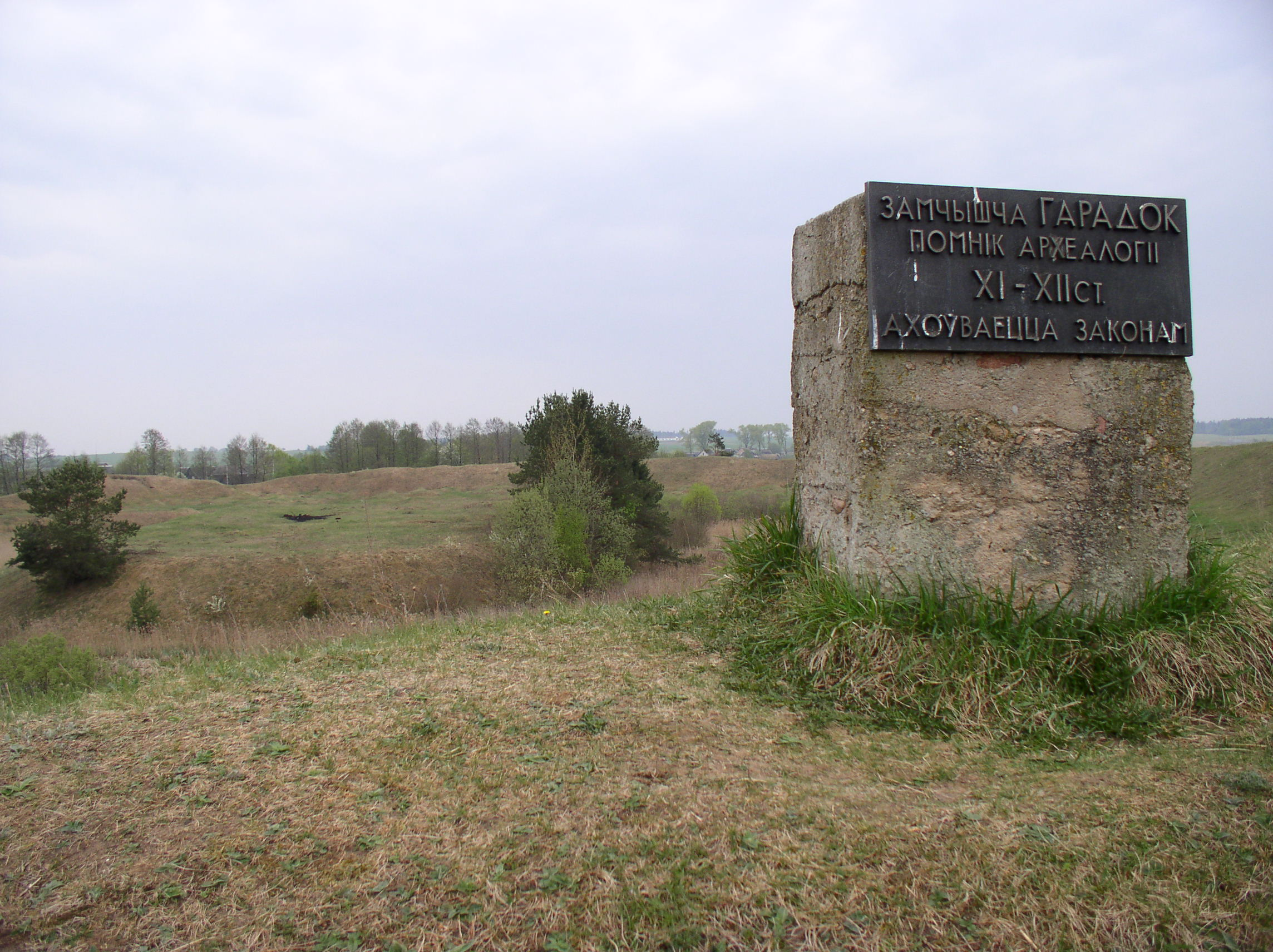 Site of ancient castle. Haradok, Maladzechna district, Belarus.